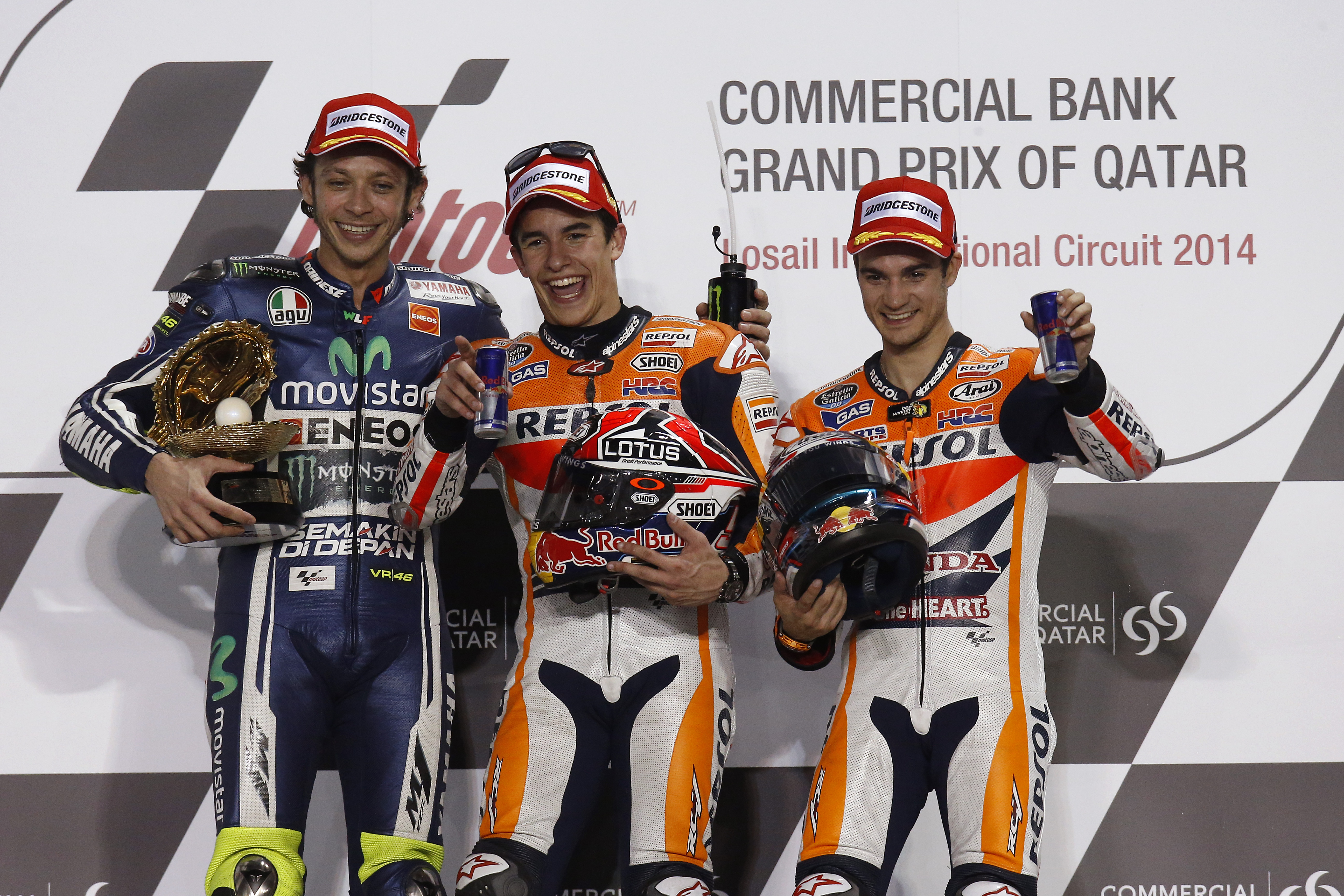 Valentino Rossi, Marc Márquez and Dani Pedrosa, holding their trophies and celebrating on the podium after finishing in second, first and third place at the 2014 Qatar Grand Prix.